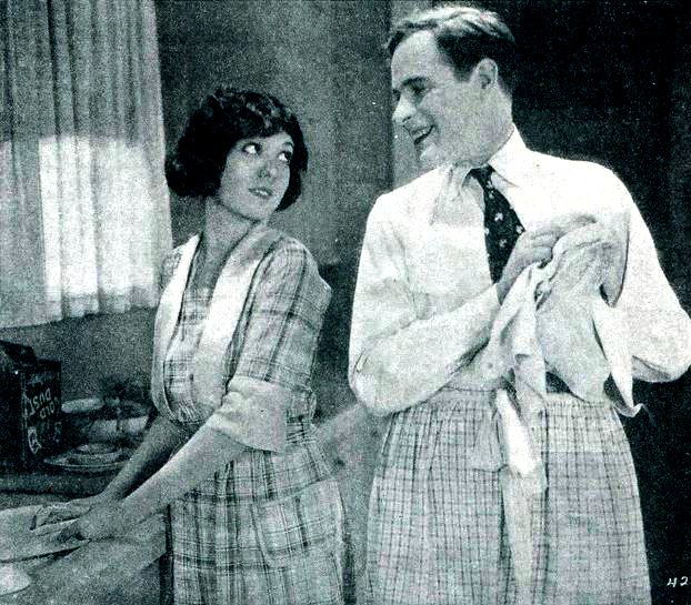 Still from the American comedy film Is Matrimony a Failure? (1922) with Lila Lee and T. Roy Barnes (1880 – 1937), on page 27 of the May 1922 Film Fun.